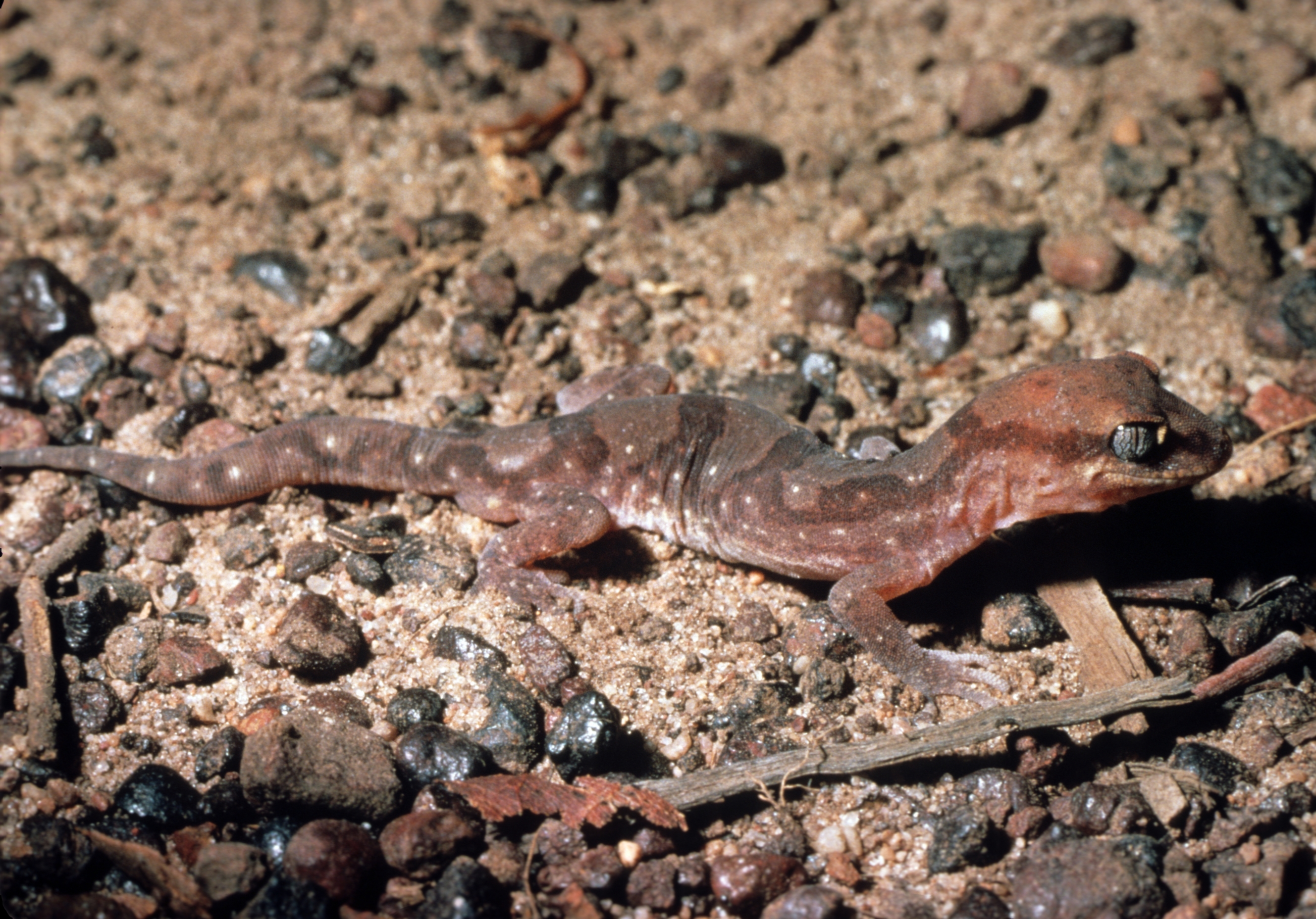 Yellow-snouted Gecko (Diplodactylus occultus) photographed at Kapalga, Kakadu National Park, NT, Aug 1981